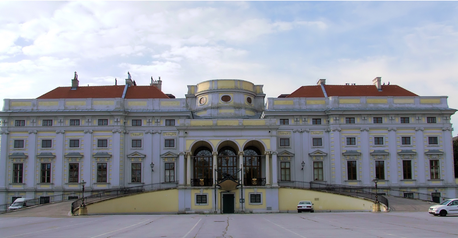 Palais Schwarzenberg construction started by Johann Lukas von Hildebrandt and ended by Johann Bernhard Fischer von Erlach. The building is located at Schwarzenbergplatz 9 in Vienna.